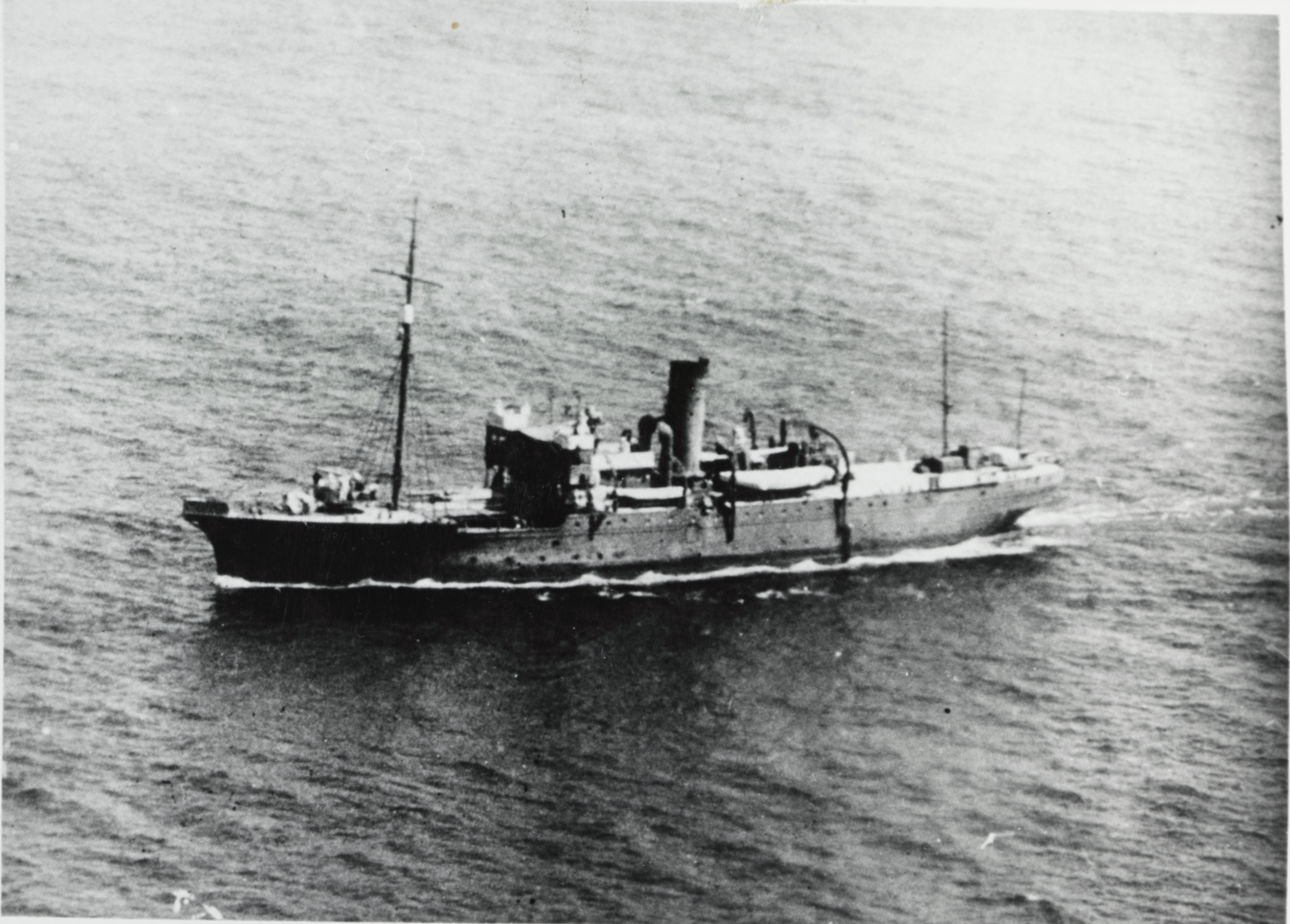 HIJMS Komahashi